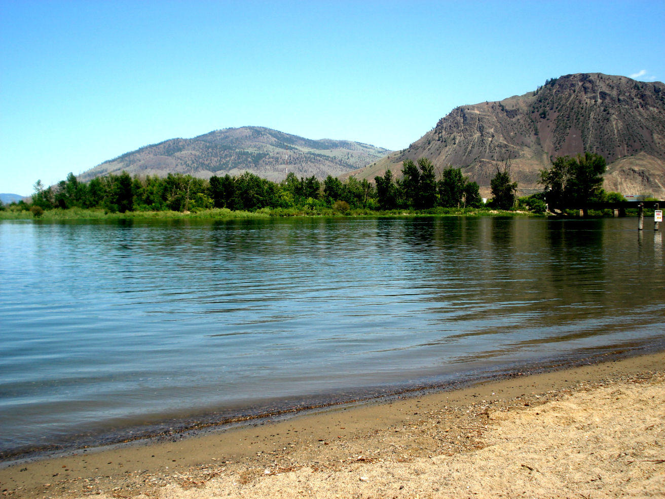 View of Mount Paul from Riverside Beach, Kamloops, BC.